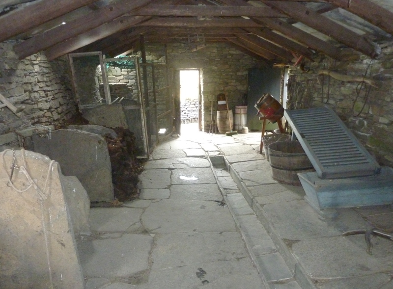 Corrigall Farm Museum, Mainland, Orkney, Scotland. Byre.